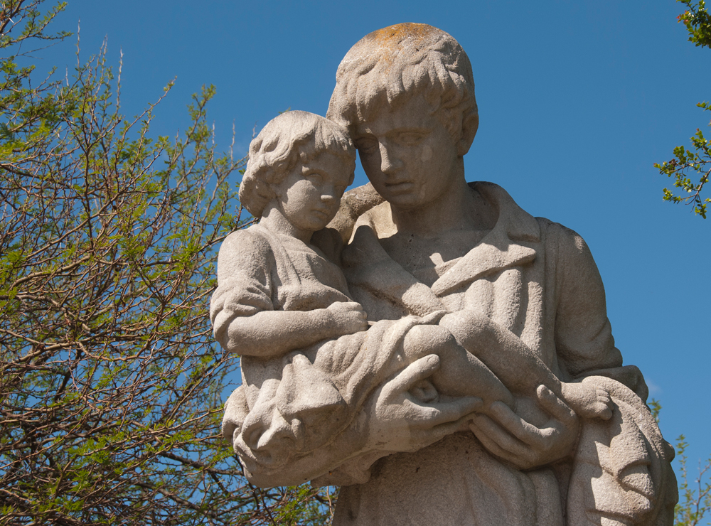 Detail of the statue to Dionisio Díaz, child hero of the department of Treinta y Tres.